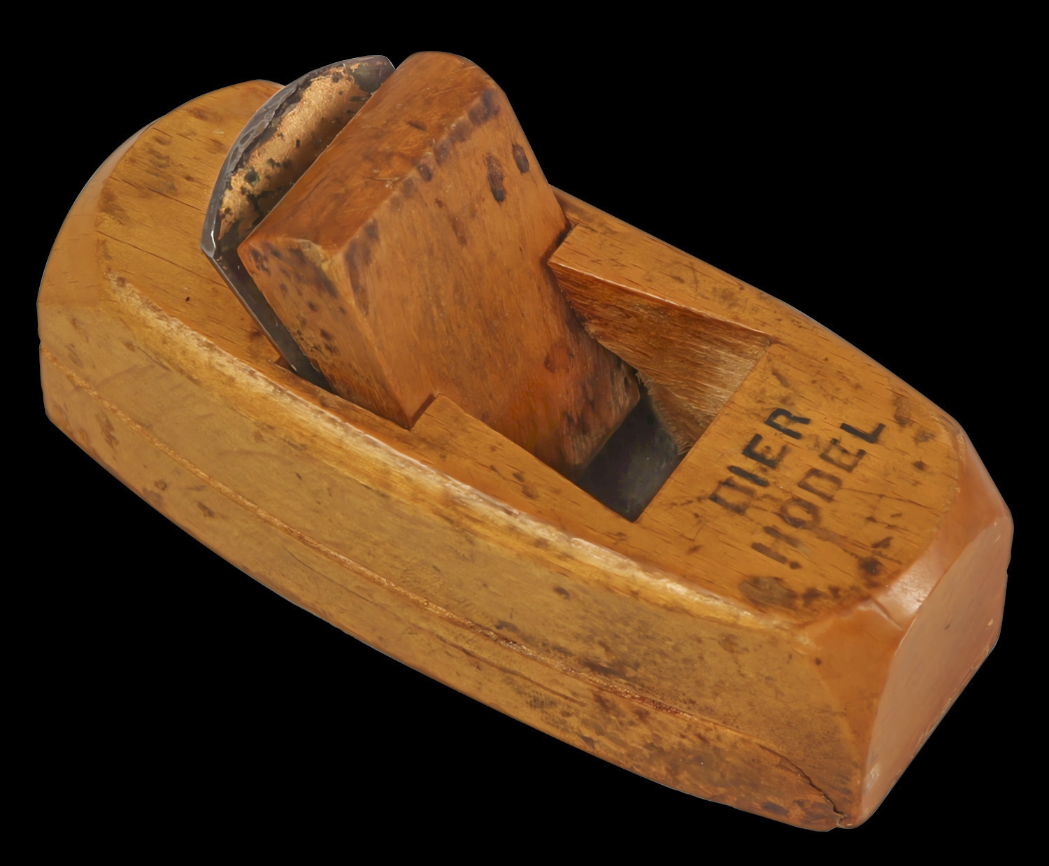 Old wooden beer bottle opener type “Bierhobel” (= miniatur wood plane).